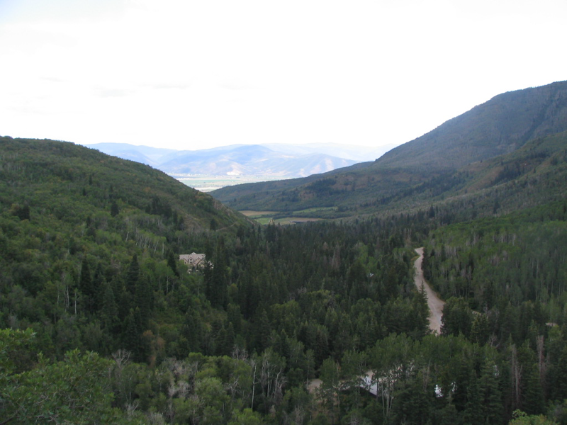 Looking back down into the Heber Valley and Midway, Utah, United States.